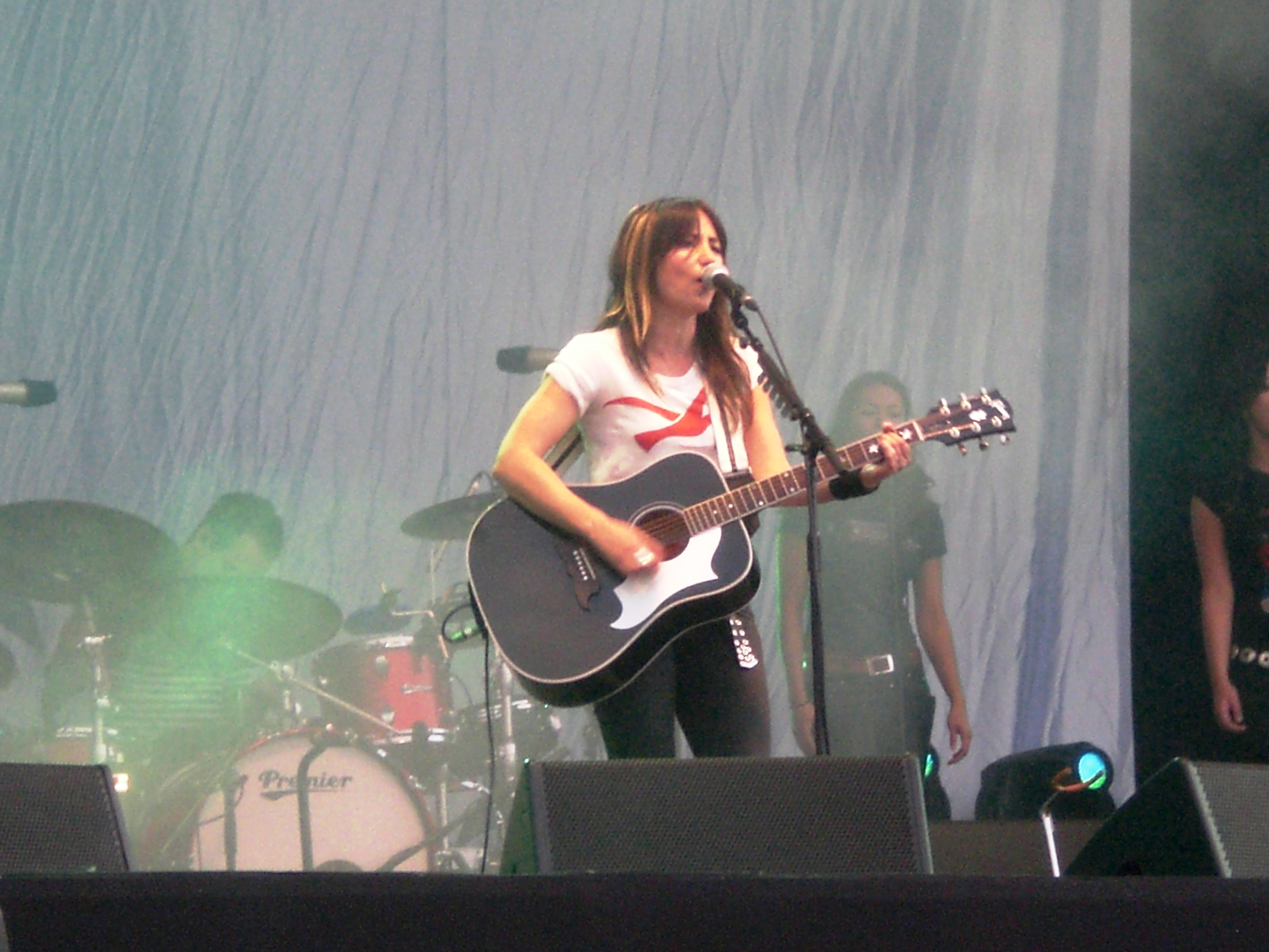 KT Tunstall performing at the Isle of Wight Festival 2008.